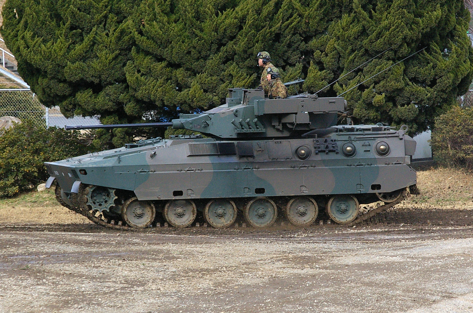 In Narashino,Japan,JGSDF 1st Airborne Brigade 2008 first drop manuver.13-Jan-2008.JGSDF IFV Type 89.Taken by Los688.PD-self